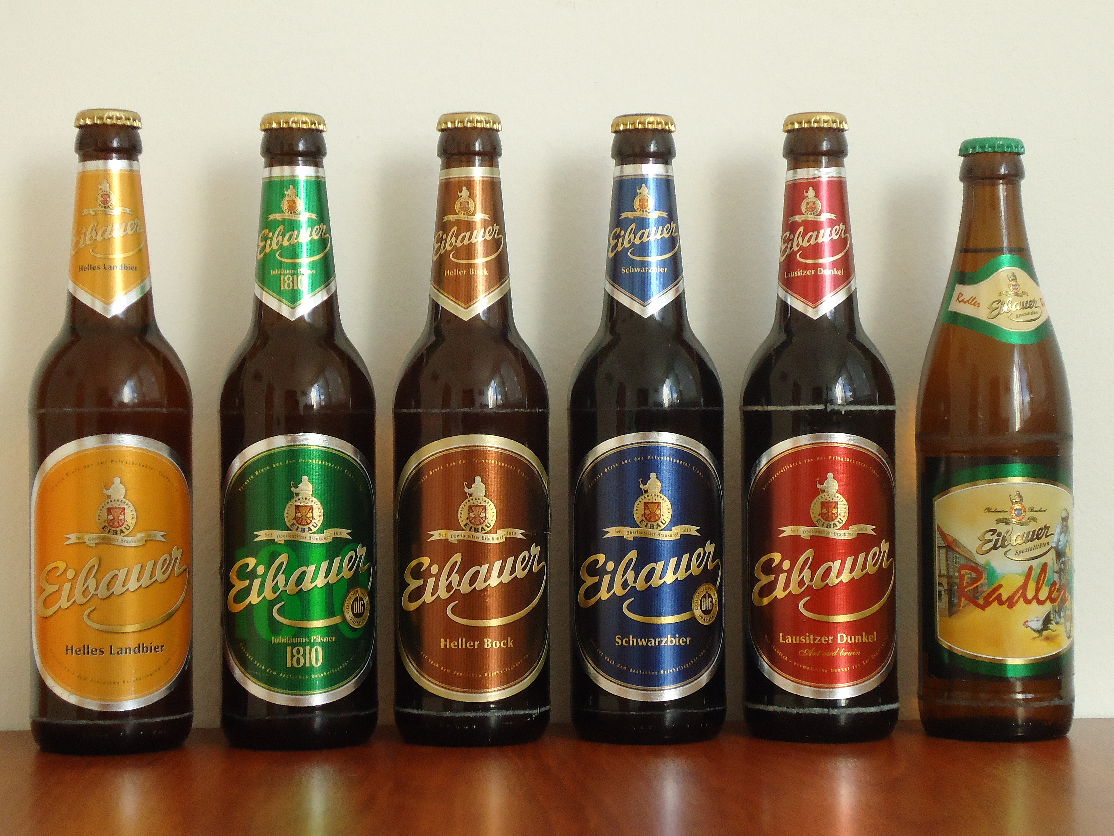 Eibauer 6 beers